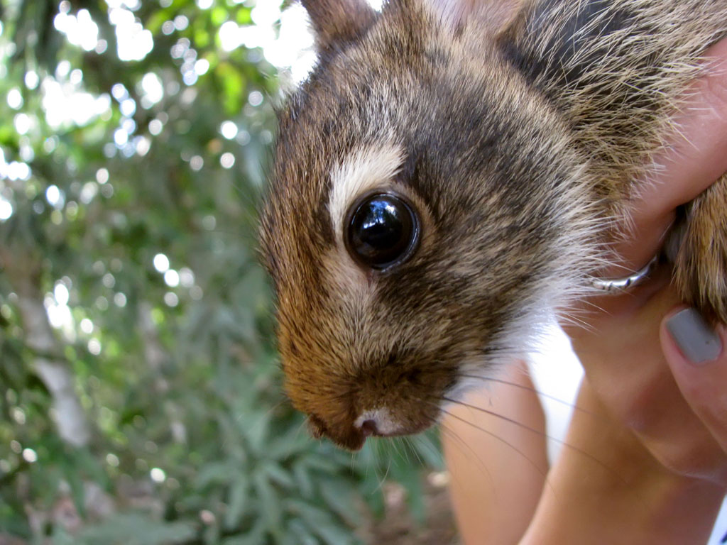 Sylvilagus brasiliensis being freed in the wild in Porto Seguro - BA - Brazil